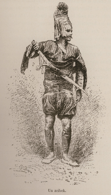 Edmondo de Amicis. Constantinople ouvrage traduit de l’Italien avec l’autorisation de l’Auteur par Mme J. Colomb et illustré de 183 dessins pris sur nature par C. Biseo, Paris, Hachette, 1883.